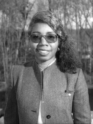 Associate chief of the NASA Space Science Data Operations Office, data scientist Valerie L. Thomas